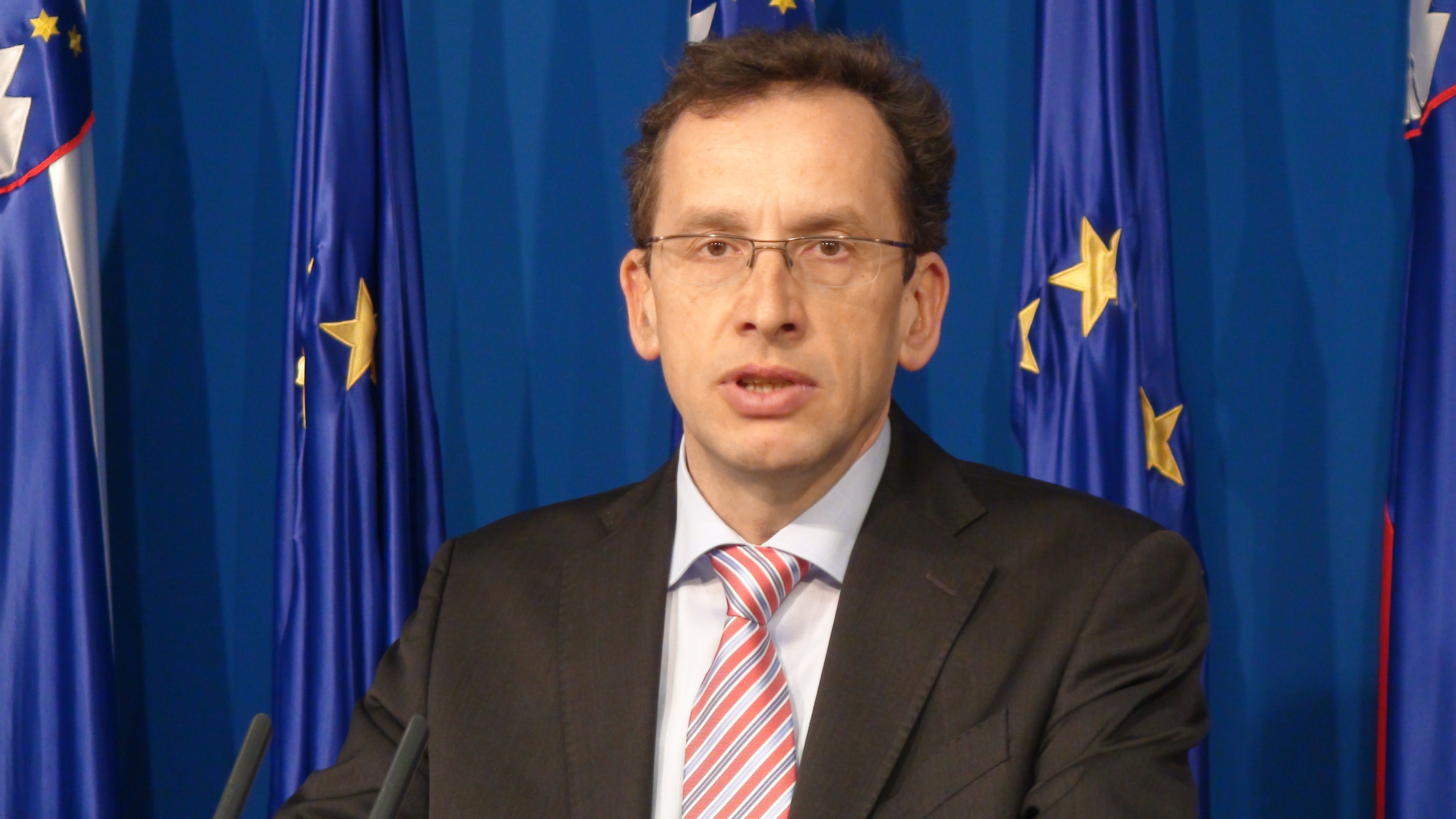 Žiga Turk in 2012